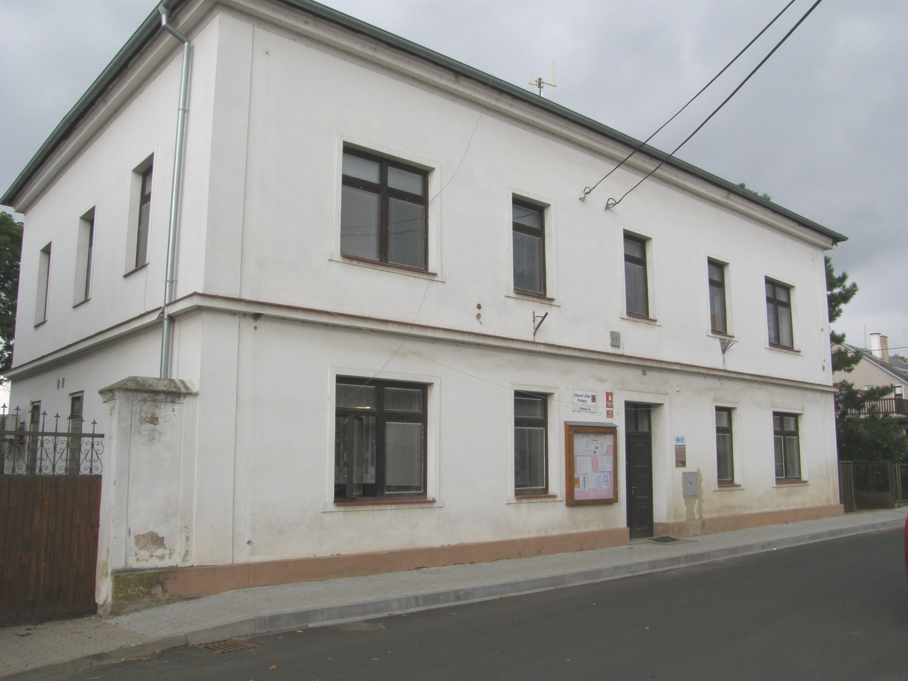 Polepy, distr. Litoměřice - municipal office